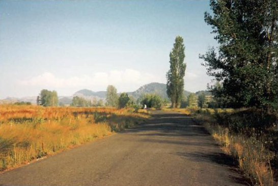 Boñar, Spain. rural outskirts of town